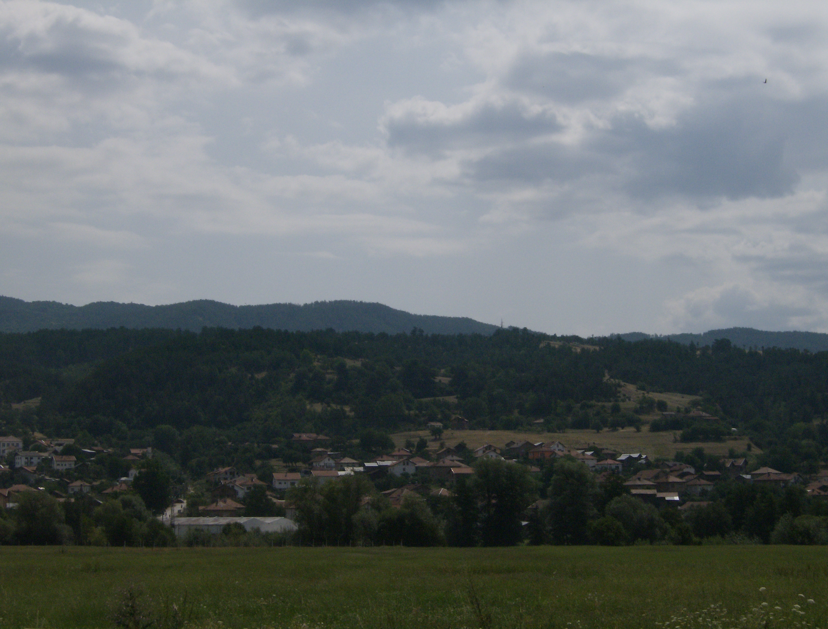 Kraishte, Blagoevgrad Province